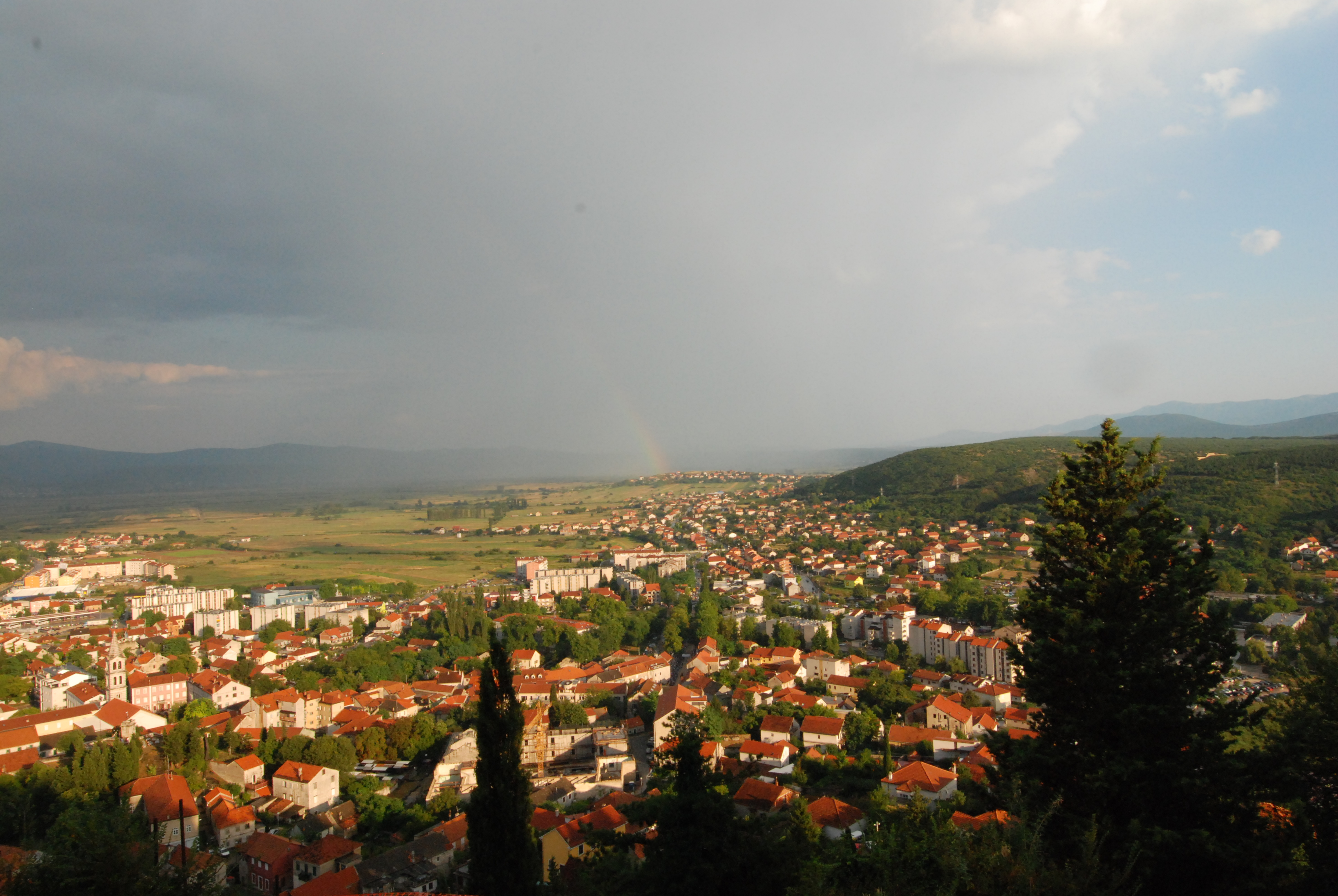 View of the city of Sinj, Croatia